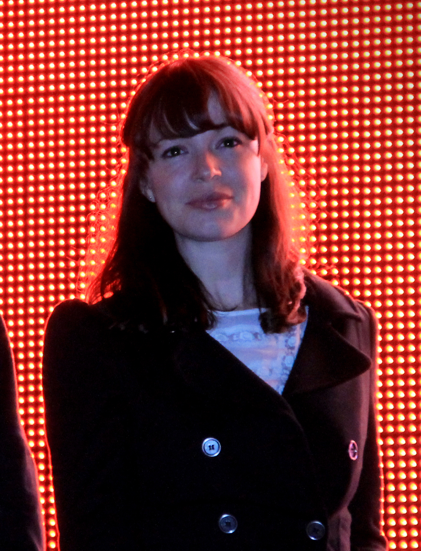 Rachel Wilson at WSFF's pre-festival event 'Christmas in June' in Dufferin Grove Park.